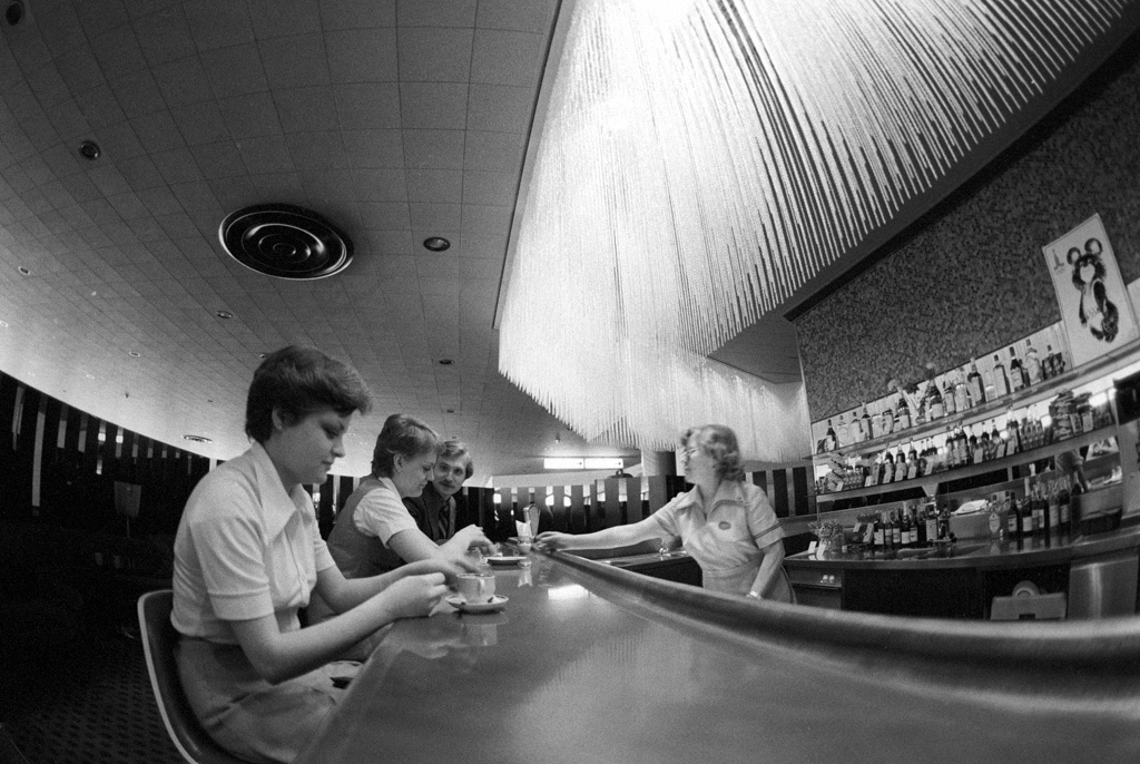 “Bar, Sheremetevo-2 international airport”. A bar at Sheremetevo-2 international airport.